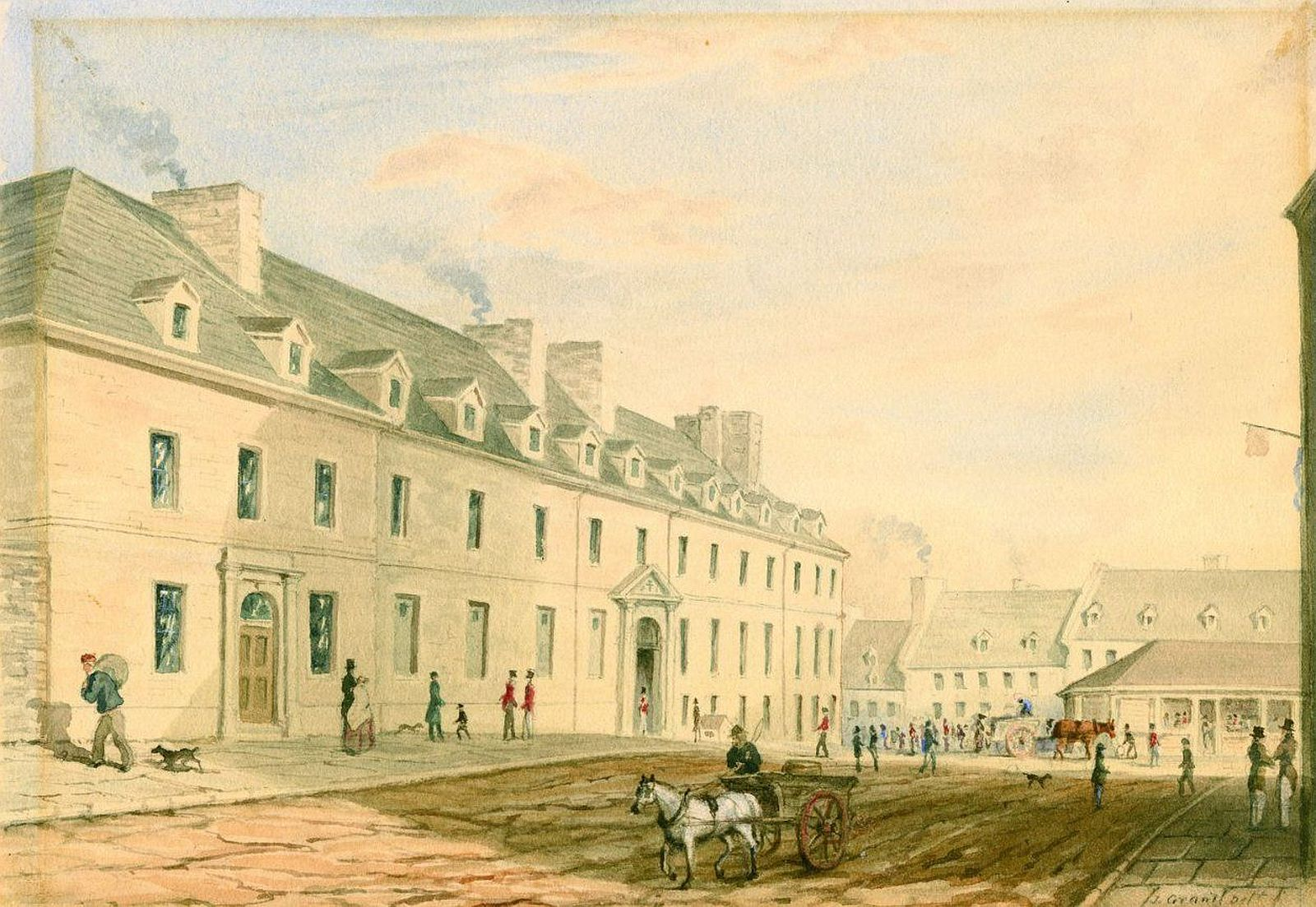 Jesuit Barracks, Quebec - Formerly the College of Jesuites